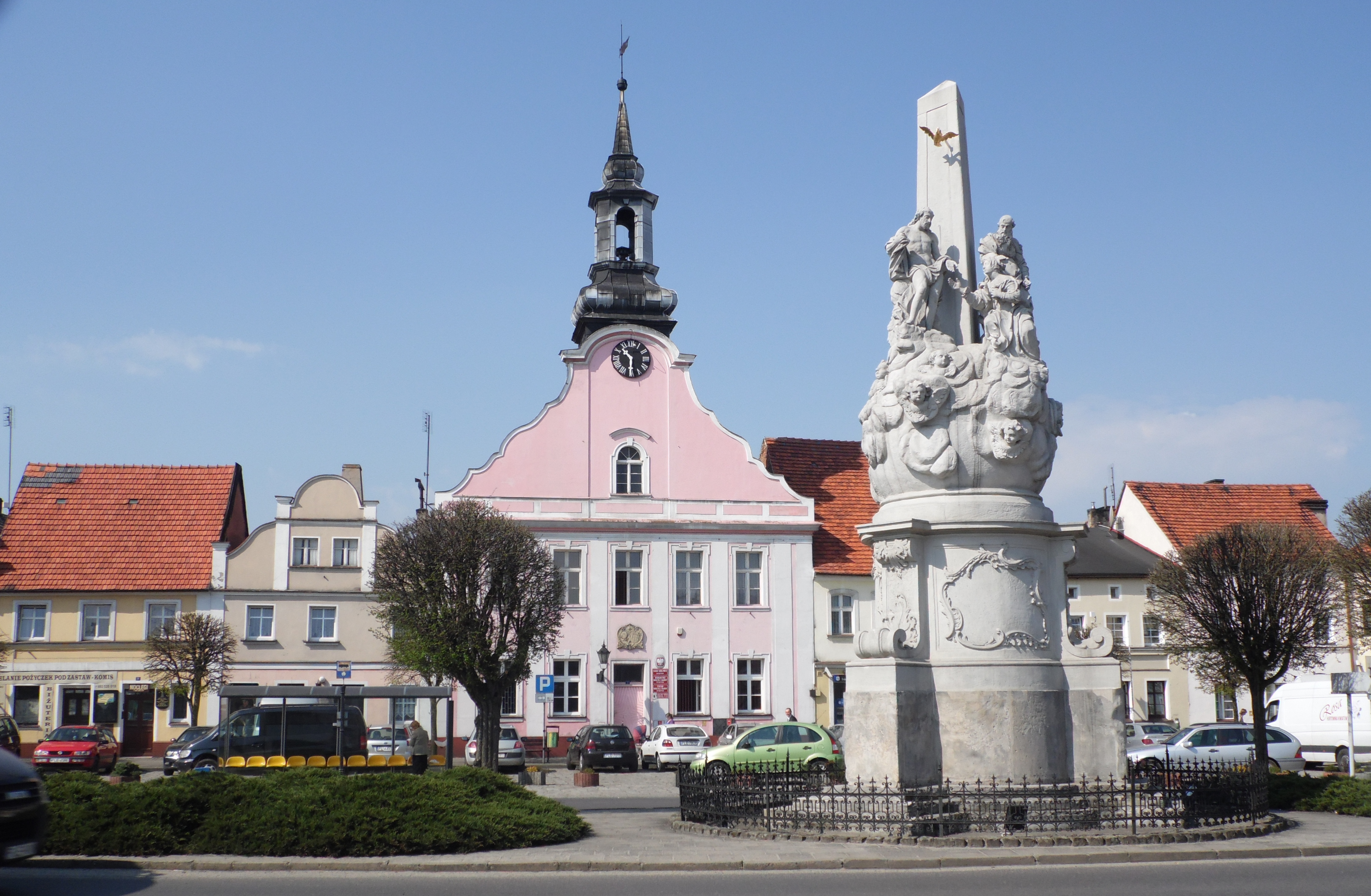 1752 Hall of Holy Trinity - Rococo monument erected in 1761 to commemorate the plague epidemic of 1709 Rydzyna, Market / area. Leszno / province. Greater Poland / Poland